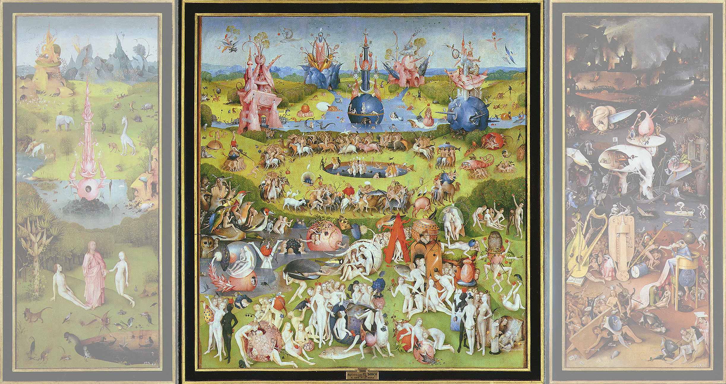 central panel.